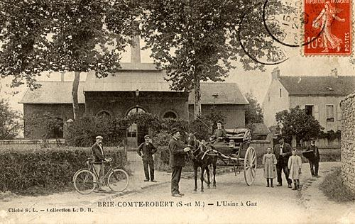 Usine of Gaz in Brie